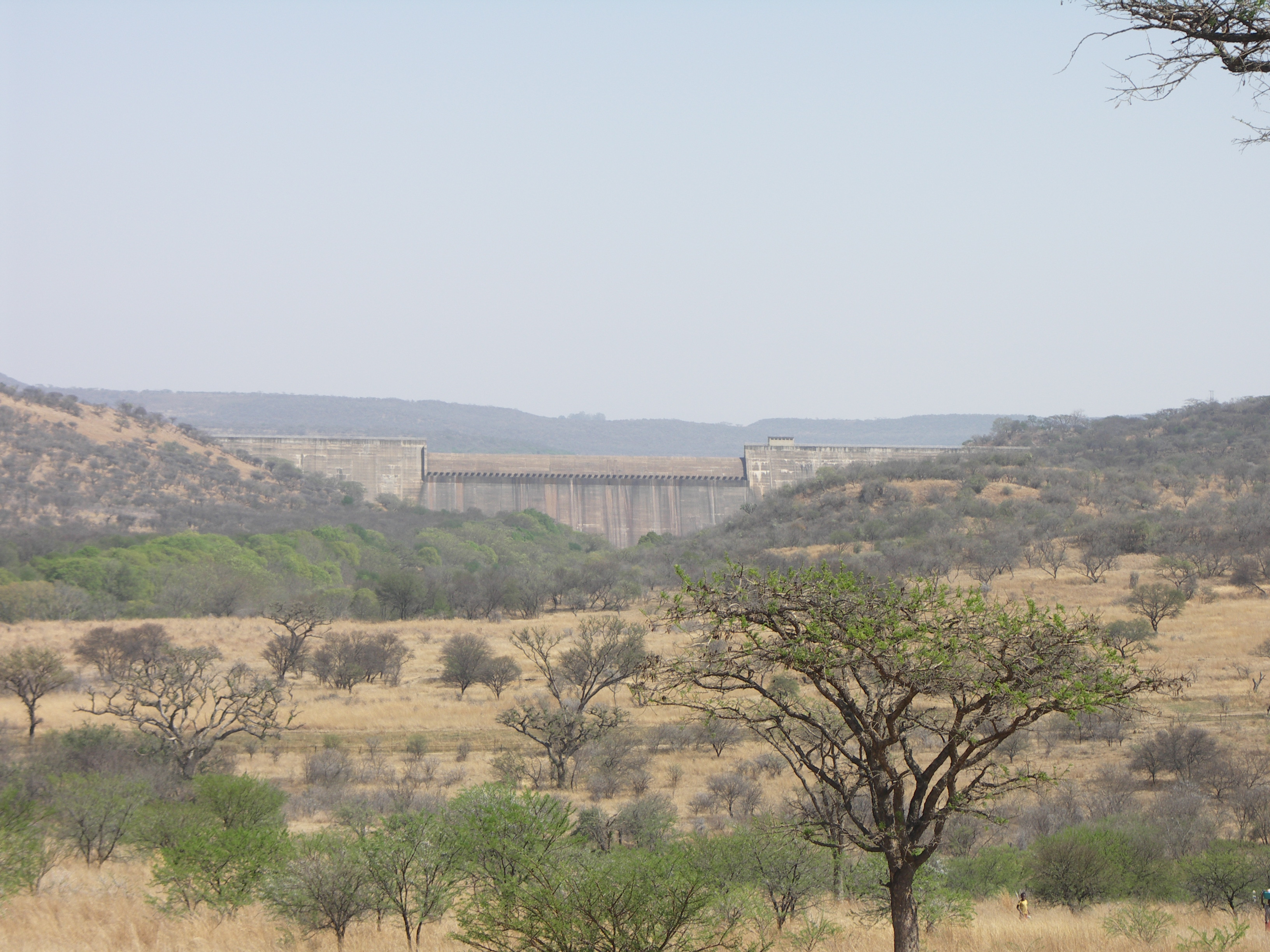 Spioenkop Dam